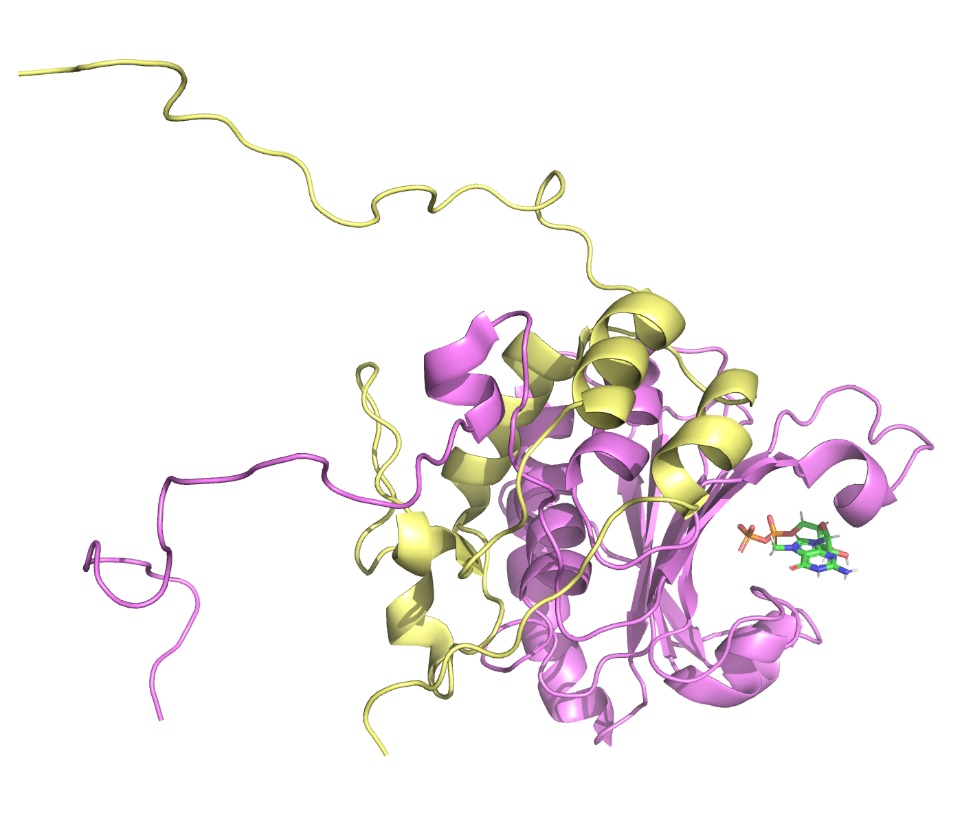 NMR-based solution structure of yeast eIF4E bound to the m7G cap and a fragment of eIF4G (393-490) (PDB 1RF8). eIF4E is magenta, eIF4G is yellow, and the m7G cap is colored by element.